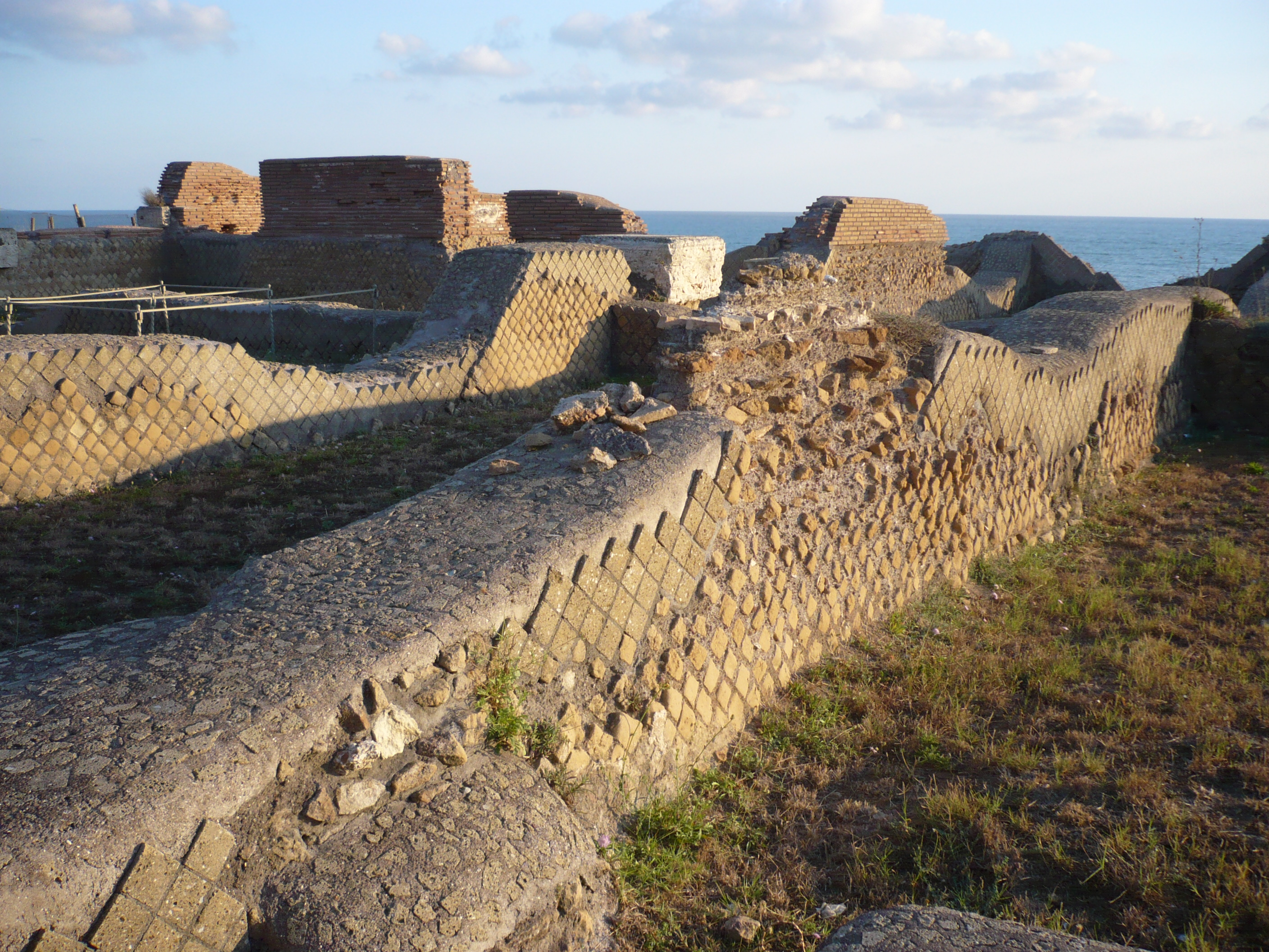 Ruins of the Domus Neroniana, Anzio